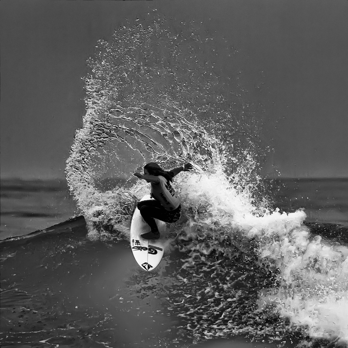 More photos from my day at the US Open of Surfing. It was a cloudy hazy day pretty much until the end of the day. It turns out I underexposed almost all my photos, all washed up with a tiny historgram in the middle. So, I tried to up the exposure and the blacks in Lightroom, which lightens and adds contrast, but makes it obvious that there are not enough tones in the image. Once I did as much as I could in Lightroom, I had nice details but the surfer looked like she was made of plastic. So opened in PS, removed all the nasty noise with Imagenomic Noiseware, and then opened and Viveza and really cranked up the structure, which made the water stand out a lot. To add the border I opened in Nik Silver Efex and some of the presets looked really nice. So, here is the Nik Silver Efex Dramatic filter, slightly tweaked to darken the sky a tiny bit. ISO 200, 365mm, f5.6, 1/1250. I can't believe I didn't extend the lens all the way, but at least upping the ISO to 200 let me get enough speed for cool looking water.